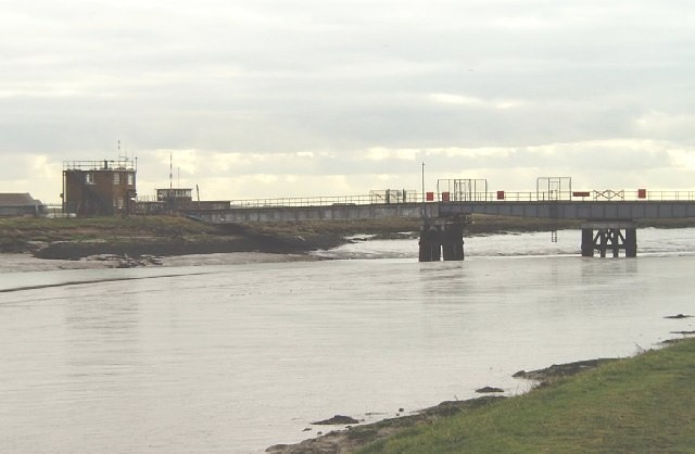 Potton Island Swing Bridge. Access to Potton Island is strictly controlled by the Ministry of Defence. Taken from the mainland looking south-east across Potton Creek.